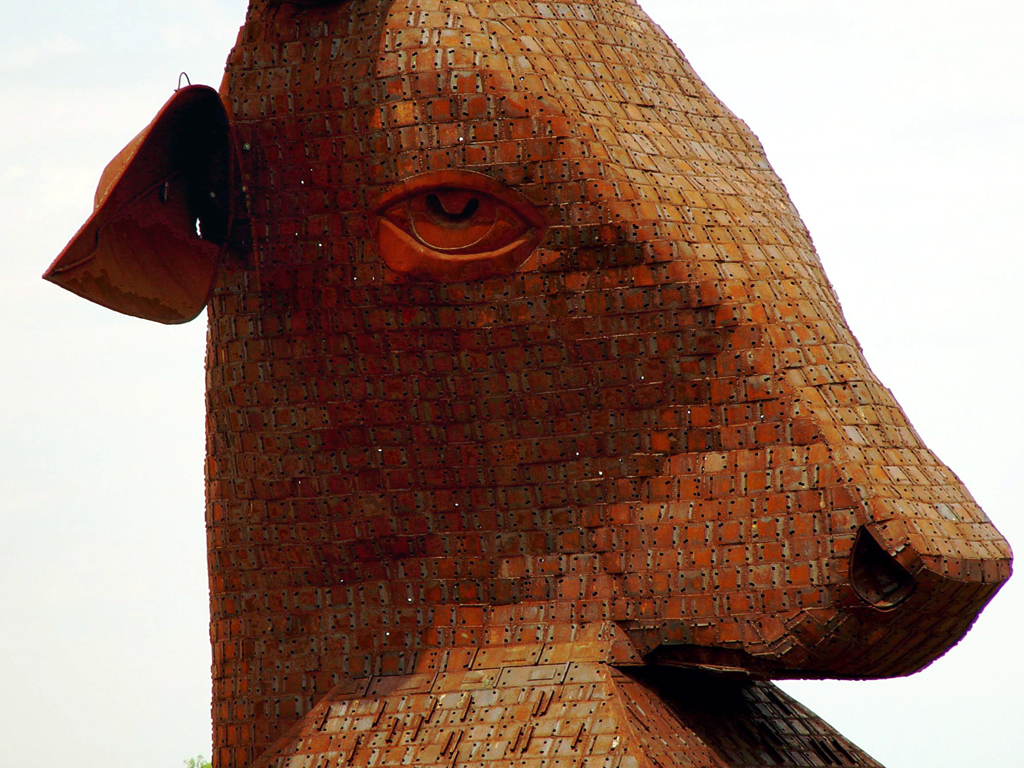 Metal Sculpture